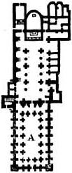 Sant'Ambrogio, Milan, plan.